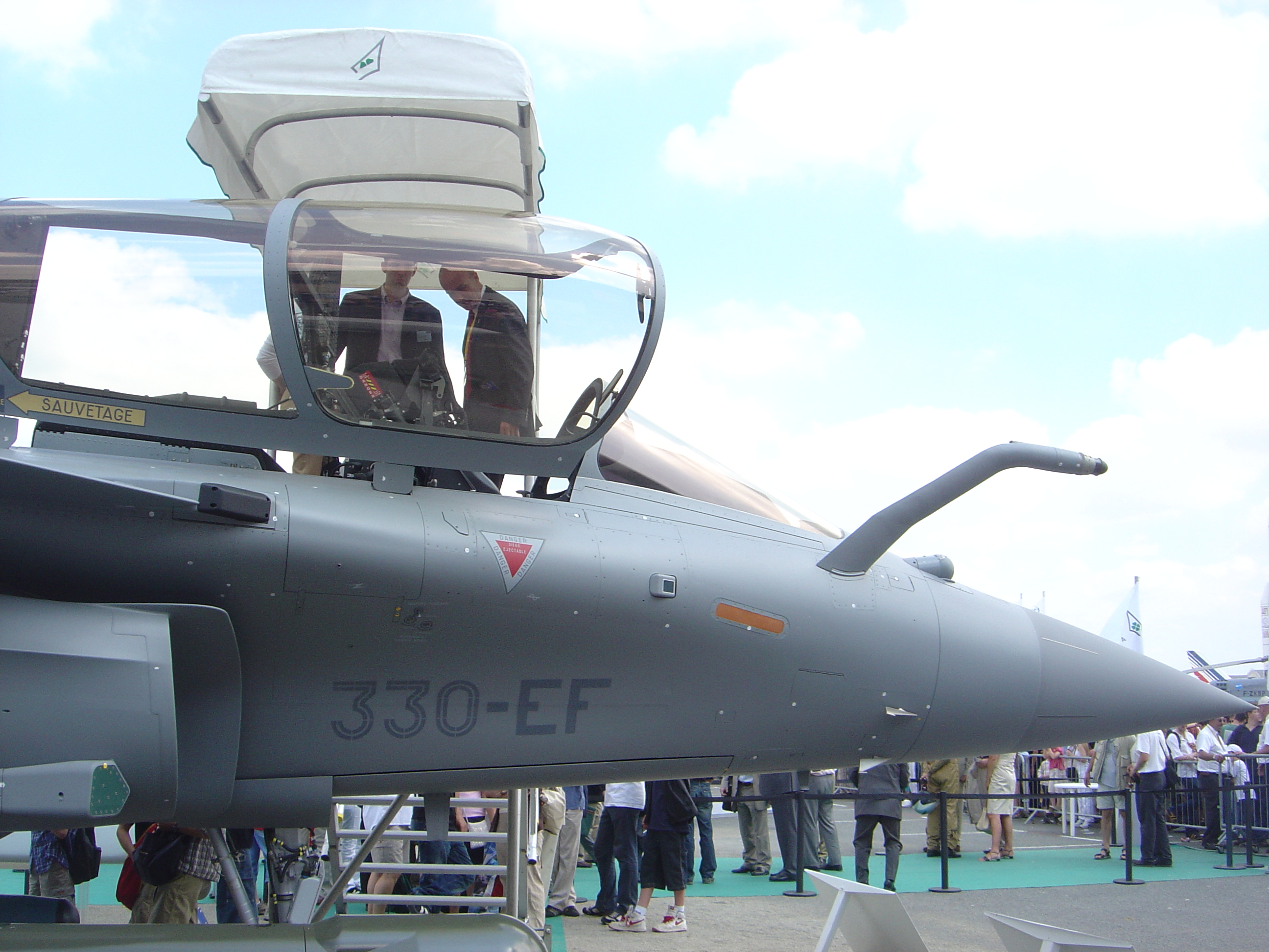 Dassault Rafale Paris Air Show, 2005